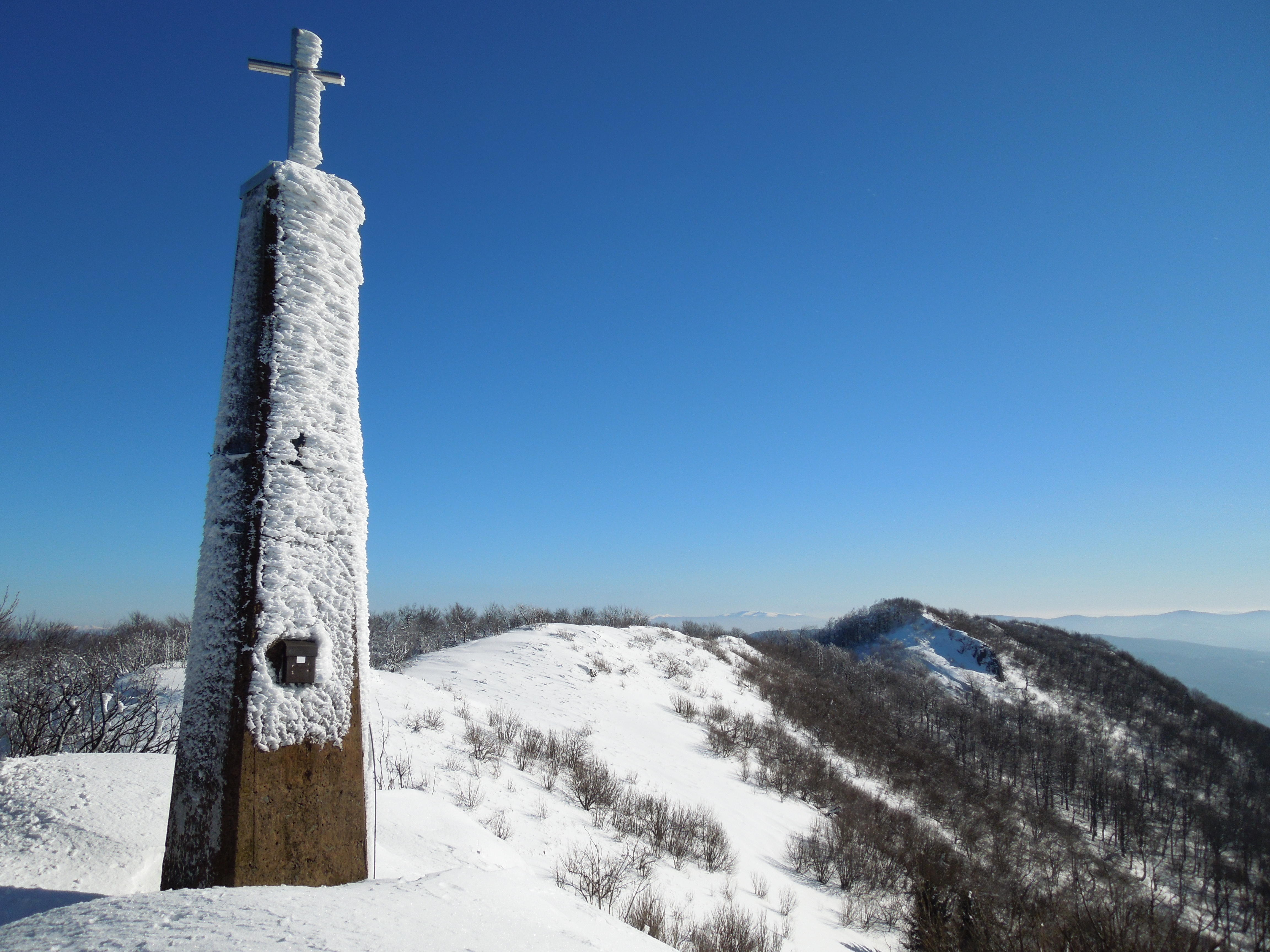 Vihorlat in the winter, view from the west peak to the east in the winter This is a photography of Natura 2000 protected area with ID SKUEV0025